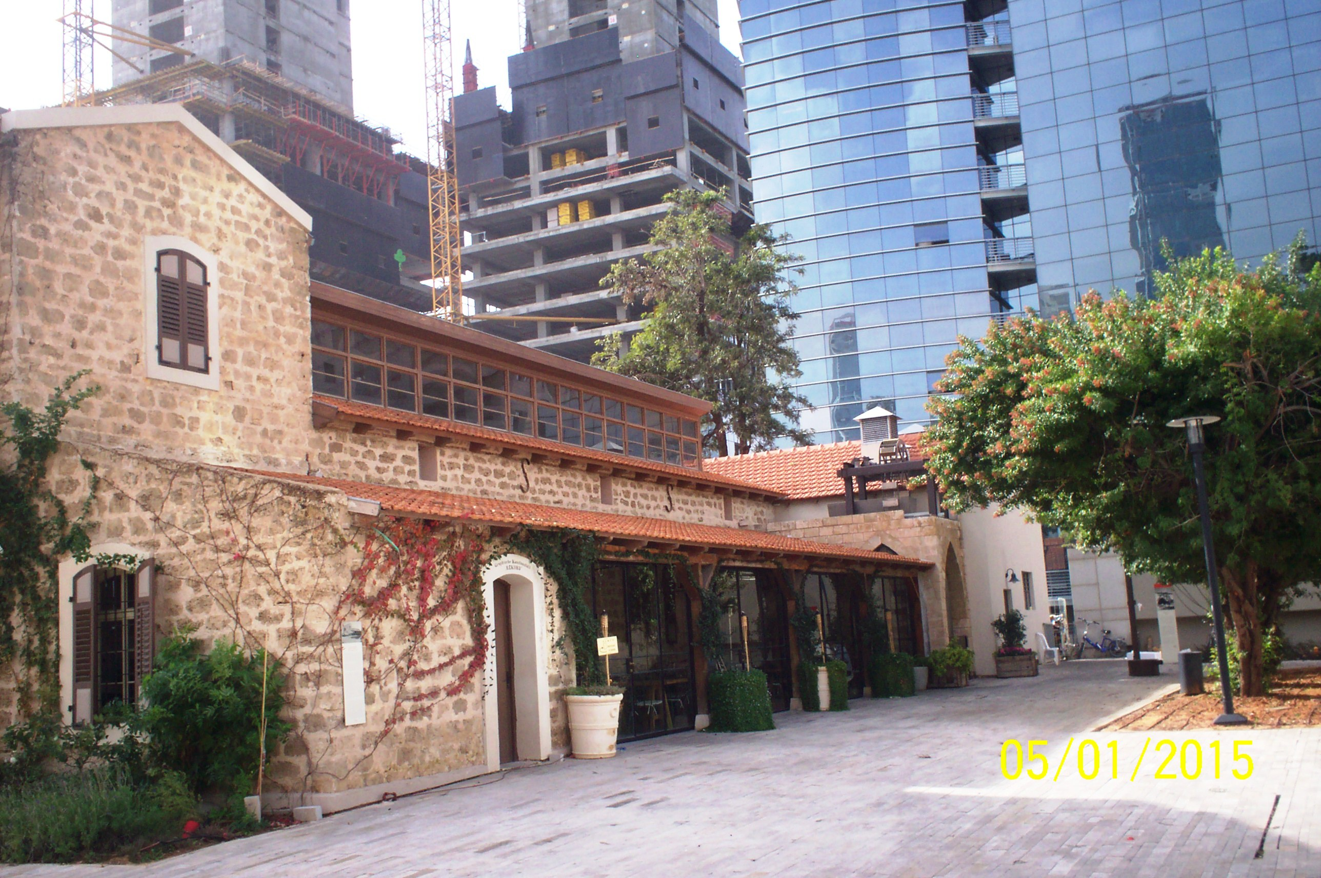 Sarona, former small winery and destillery of the Vintners´ Cooperative of Sarona and Wilhelma